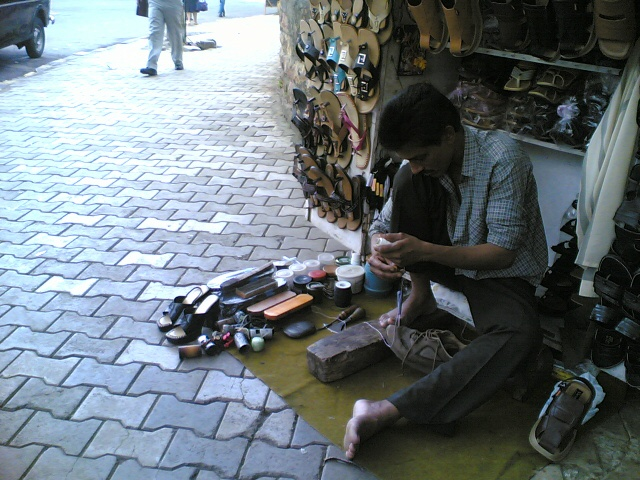 A cobbler in Mumbai, India at work